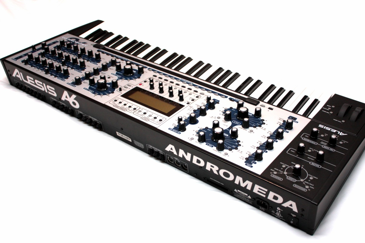 Alesis Andromeda A6 synthesizer back